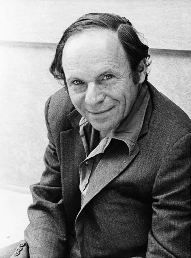 Original description: This picture of Philip Morrison was taken from and was probably created by NASA at the time of the panel it was taken from (1976).